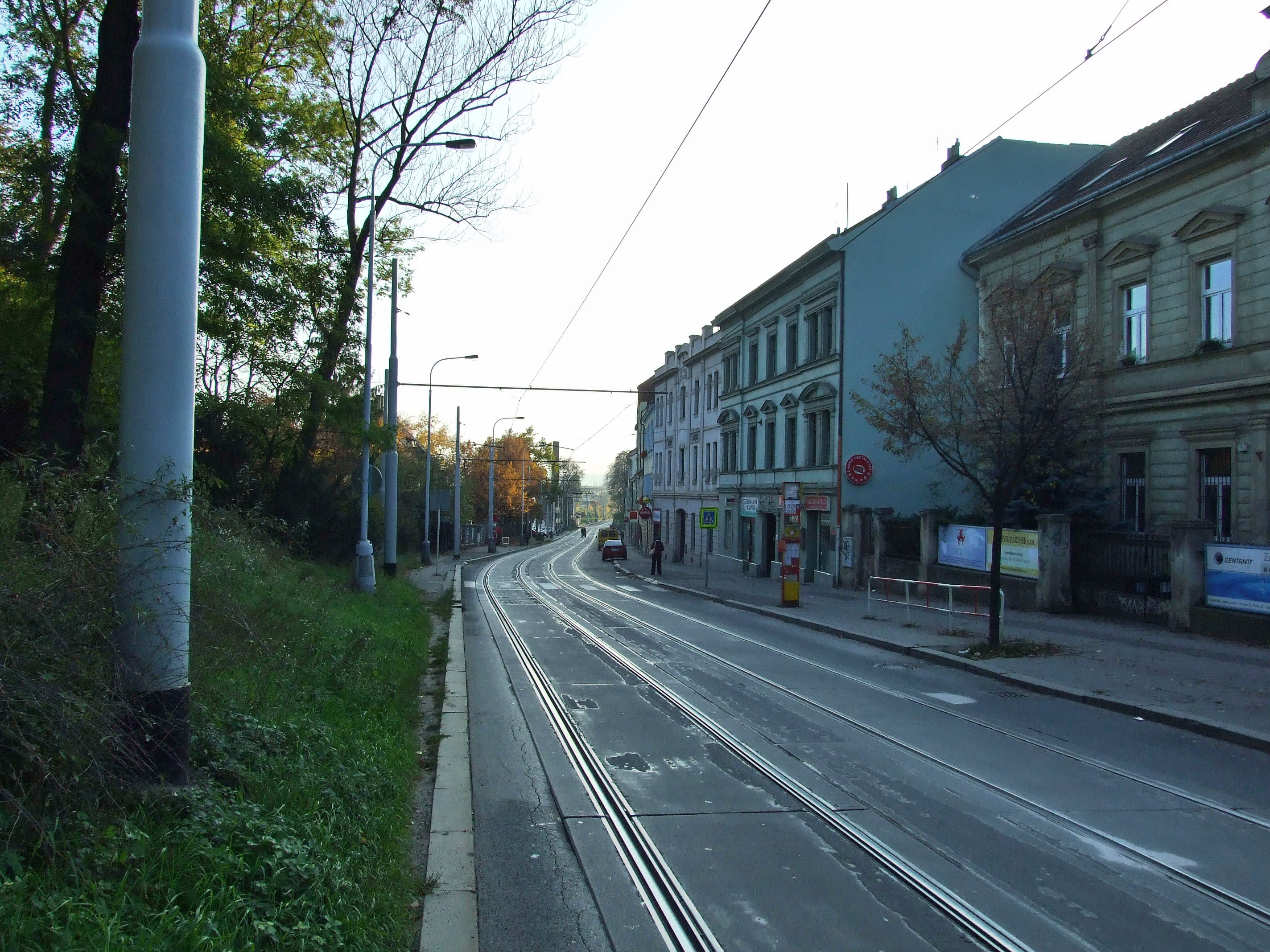 Zlíchov, part of Prague